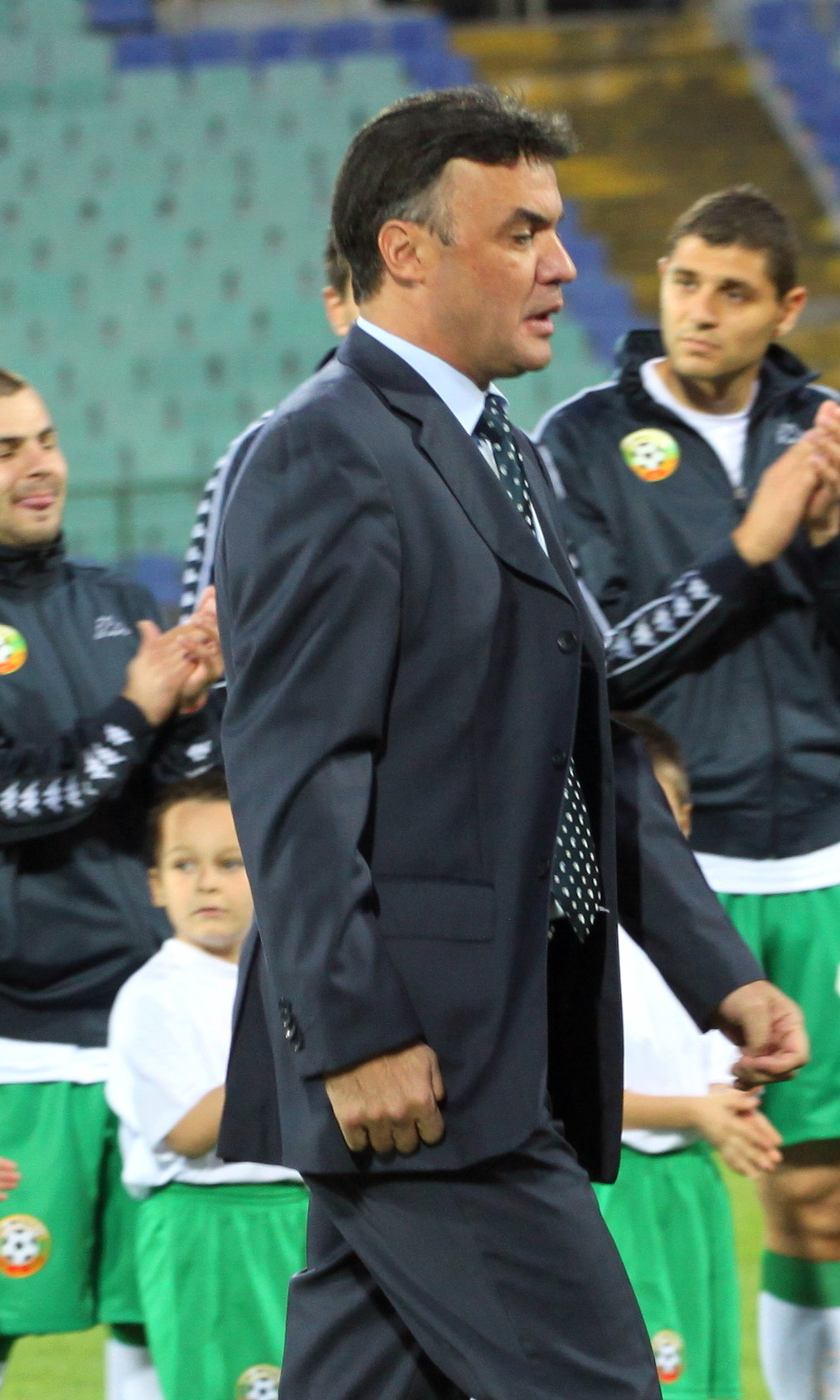 Borislav Bisserov Mihaylov is a former Bulgarian football goalkeeper and currently President of Bulgarian Football Union, member of the executive committee of UEFA.